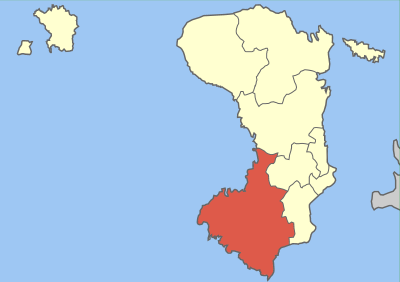 Locator map of Mastichochoria municipality (Δήμος Μαστιχοχωρίων) in Chios prefecture (Νομός Χίου) in Greece.